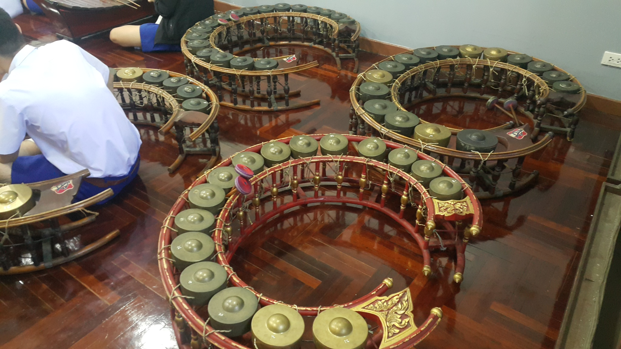 Thai instrument: Gong Wong Yai (ฆ้องวงใหญ่)